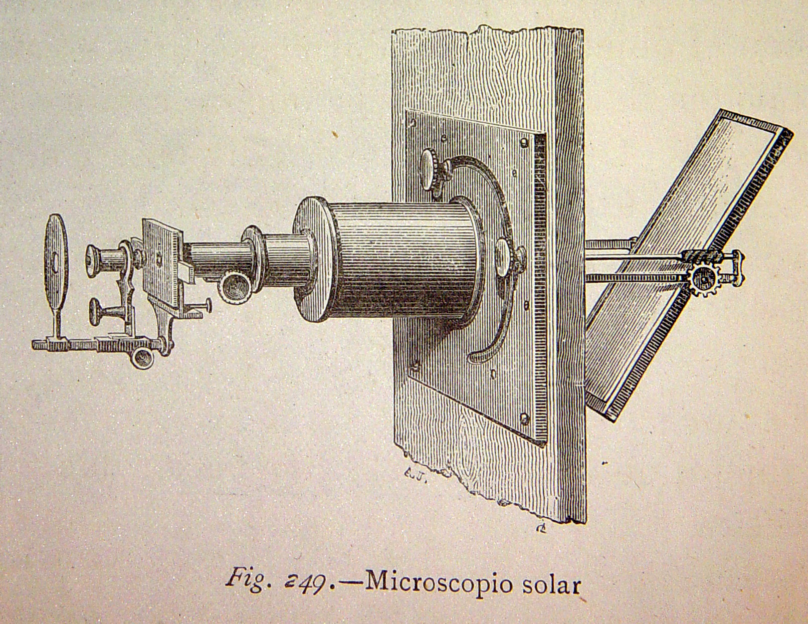 Solar microscope